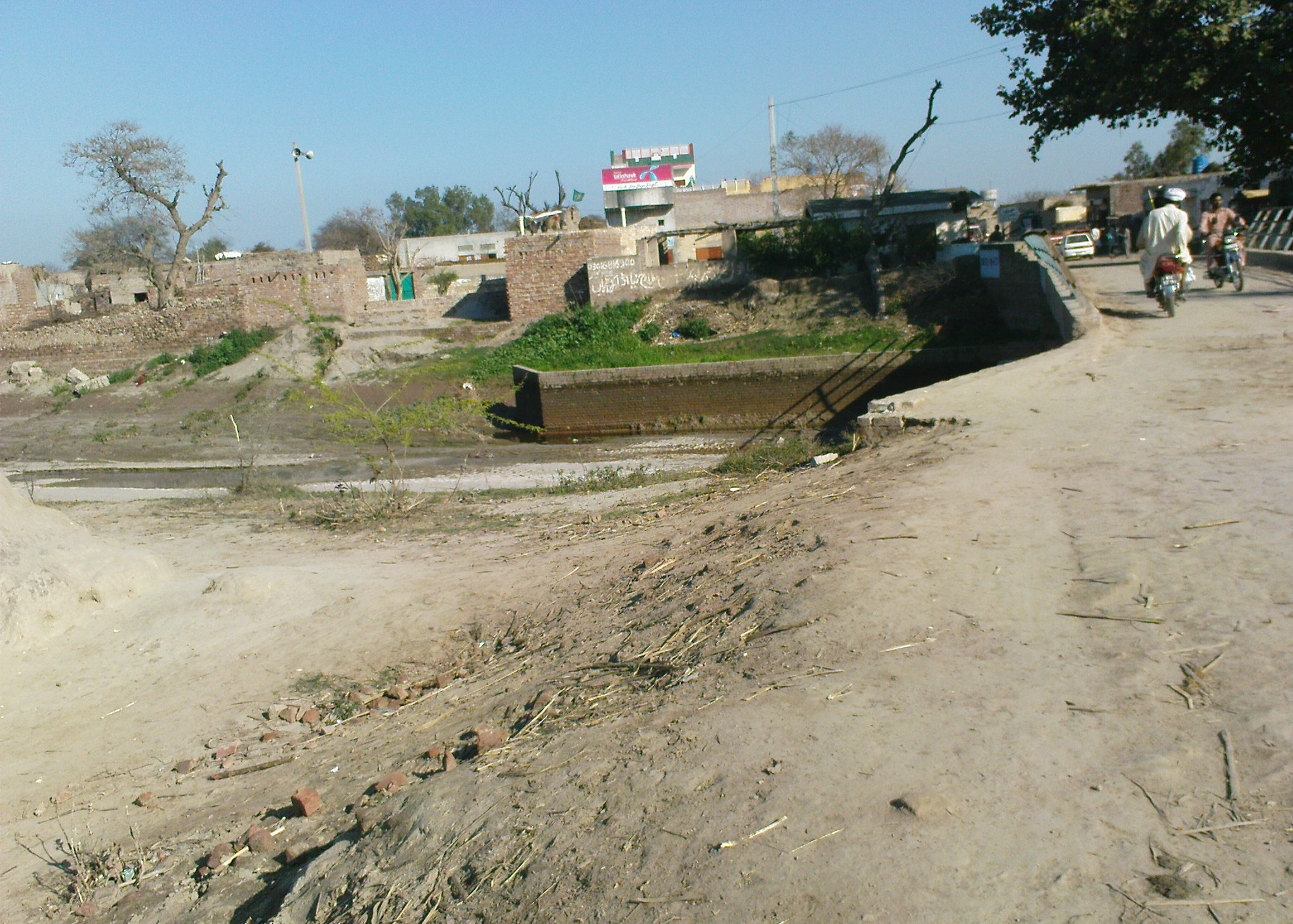 Main entrance of Gohar Jageer, Kasur district, Punjab province, Pakistan.